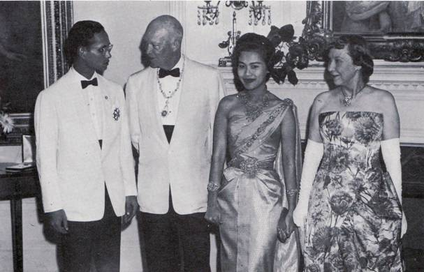 Their Majesties the King and Queen of Thailand with President and Mrs. Eisenhower at the White House dinner on the evening of the Royal couple's arrival in Washington, D.C.